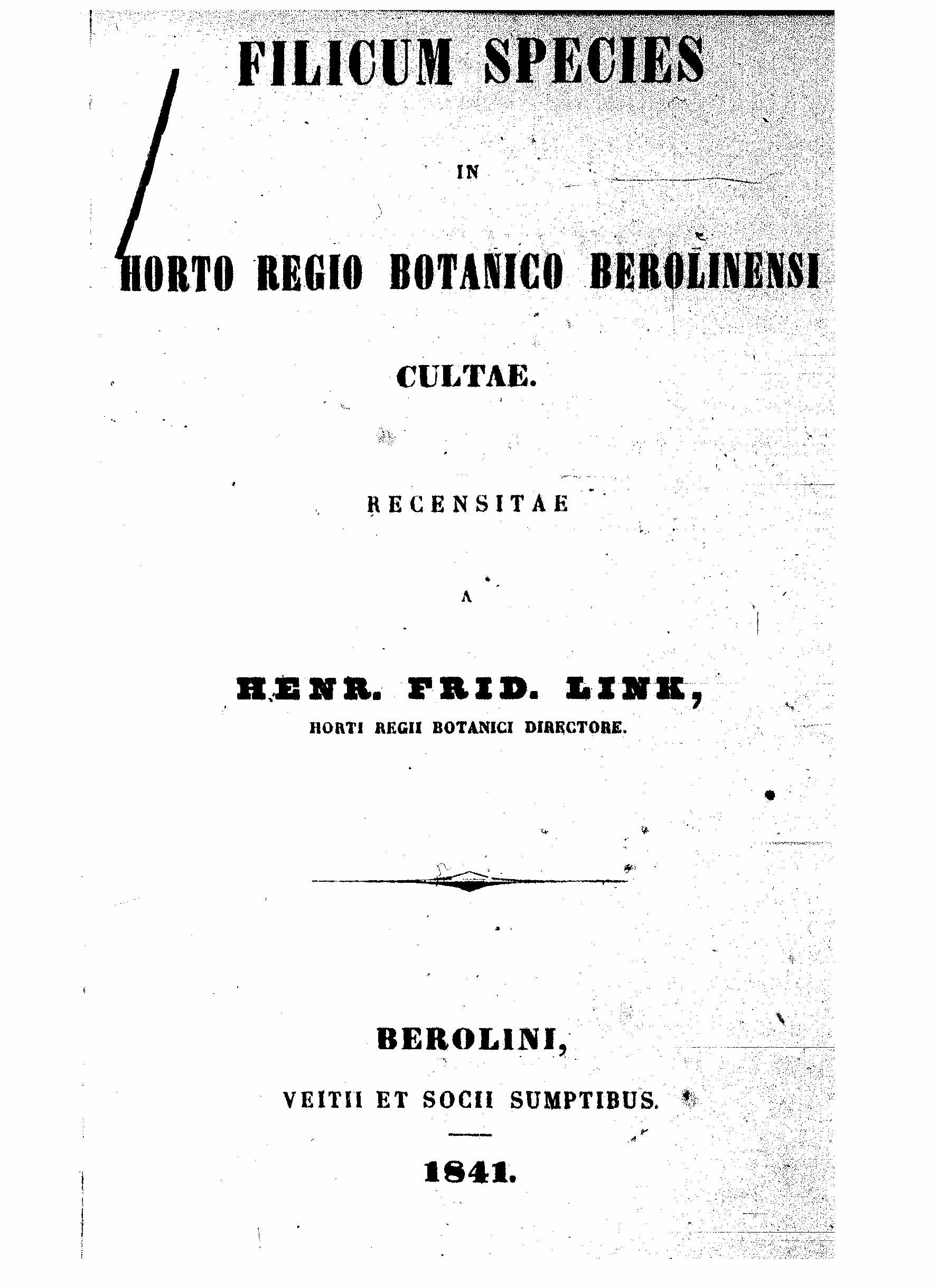 Title page of Filicum species in horto regio Berolinensi cultae (Berlin 1841) written by the German botanist Heinrich Friedrich Link